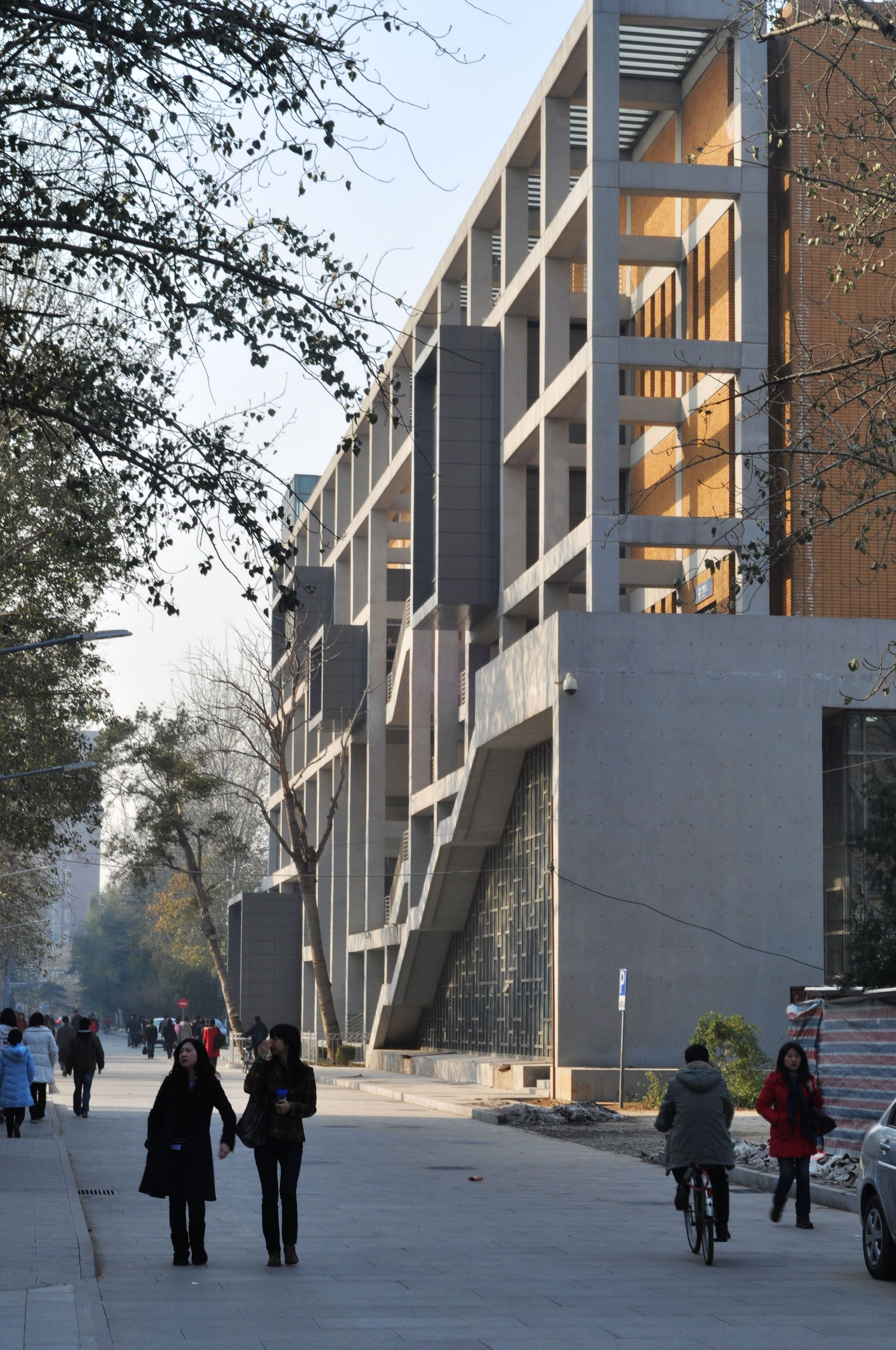 The Gym of Beijing Foreign Studies University